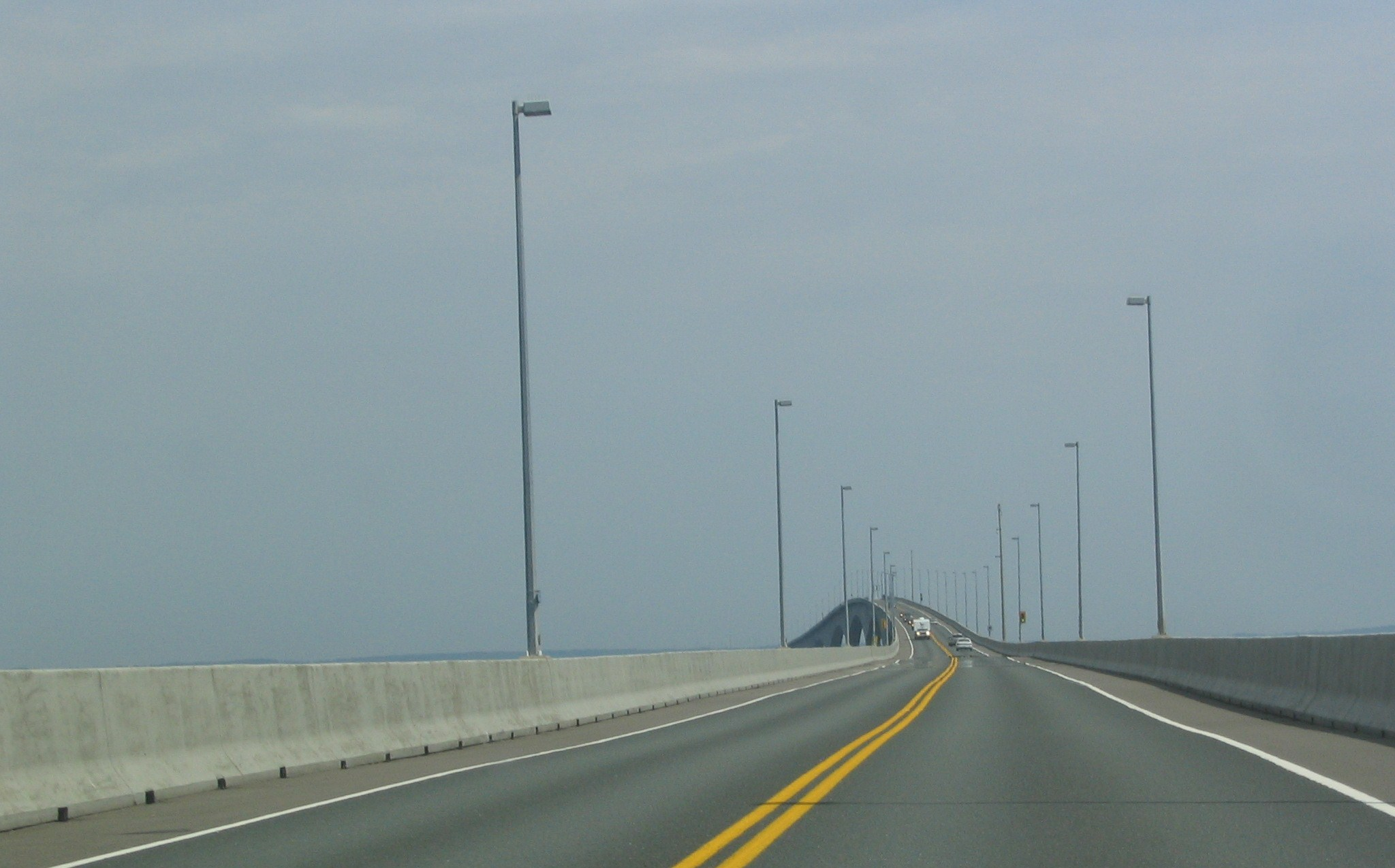 Confederation bridge, Canada. Picture taken from inside a car.